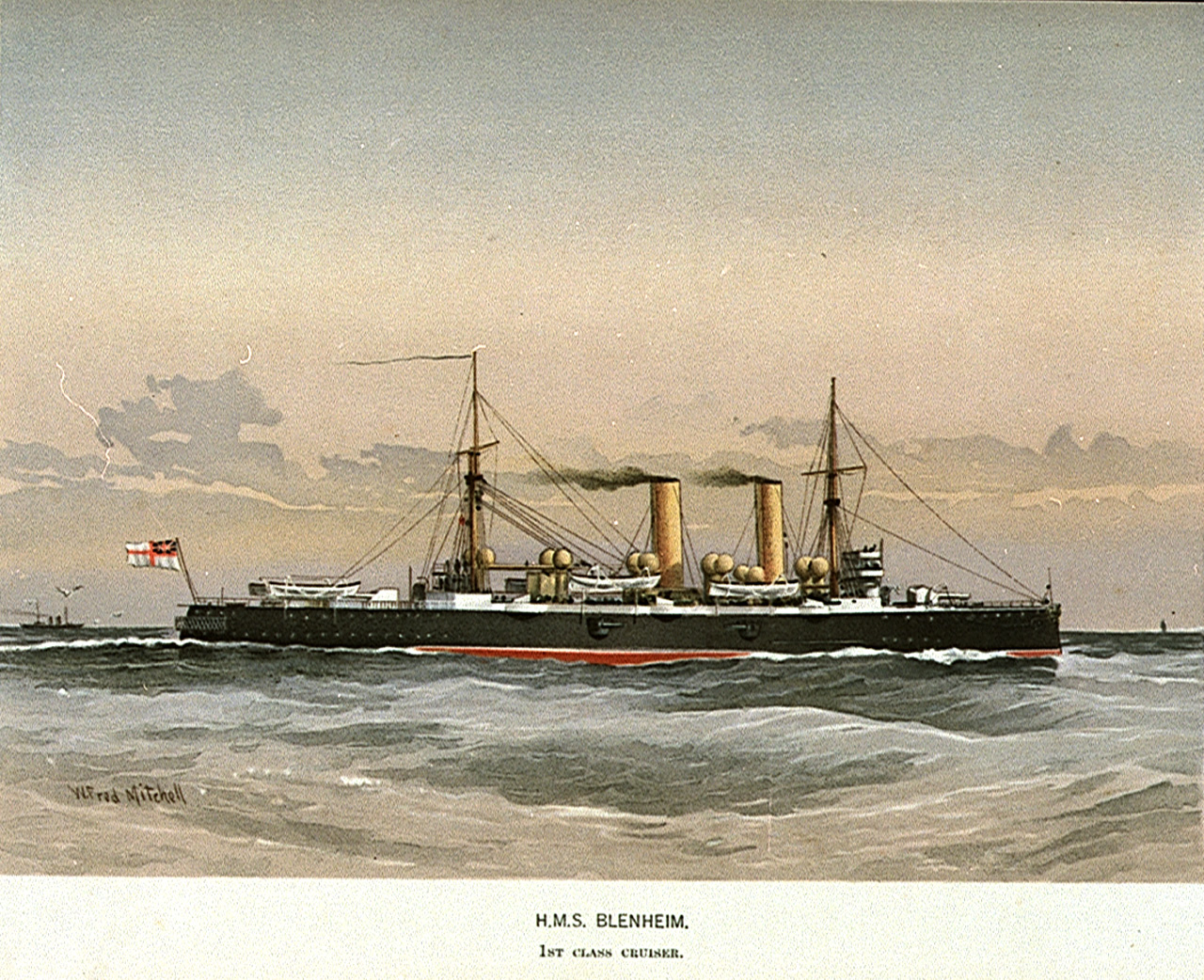 HMS Blenheim First Class Cruiser Print. The 'Blake' Class armoured cruiser HMS 'Blenheim' was launched at Thames Ironworks on 26 May 1890. Her main guns were in armoured casemates, a leading characteristic of nearly all Sir William White's ships. HMS 'Blenheim' weighed 9,150 tons, was 375 feet in length and had a beam of 65 feet. Her armament consisted of two 9.2-inch guns, ten 6-inch guns and eighteen 3-pounders. Her designed speed was 22 knots. After service HMS 'Blenheim' was used as a depot ship from May 1908 and finally sold to the breakers in 1926.